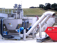 Screen filter